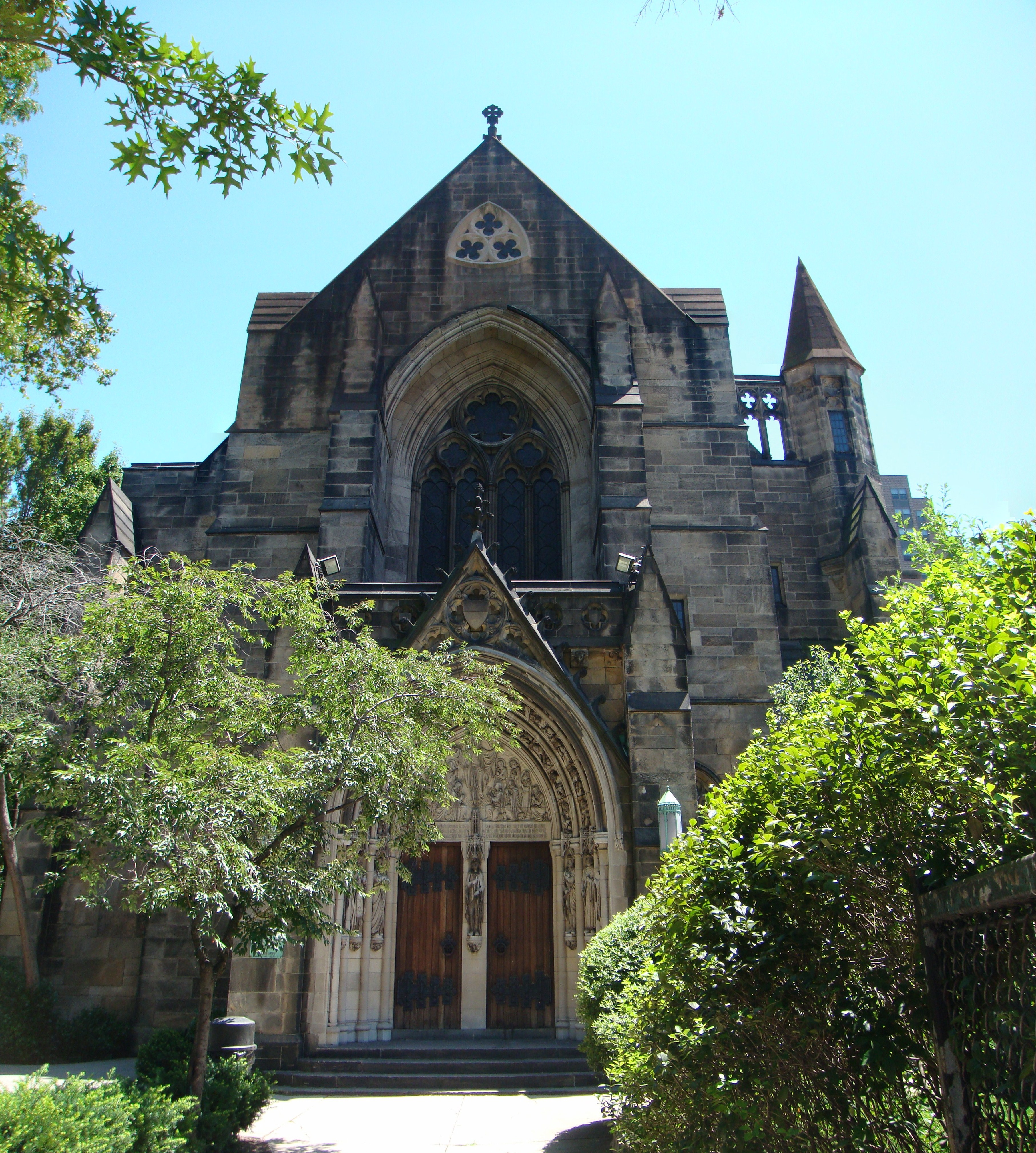 401-499 Cathedral Pkwy